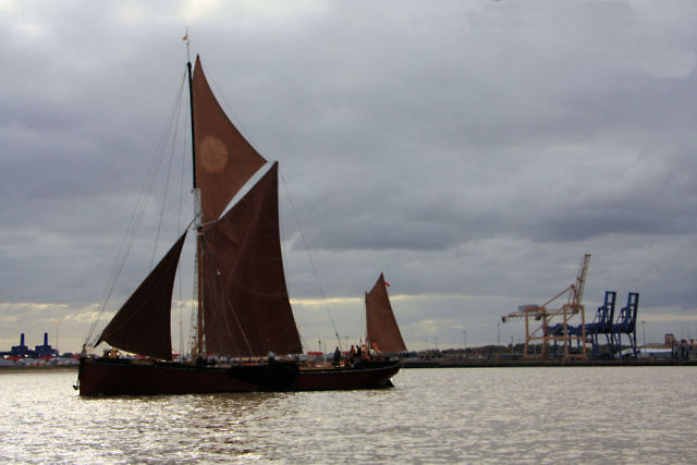 Thames sailing barge 'Melissa' Built in 1899 at Southampton by boat company Fay for London-based EJ and W Goldsmith, this steel-hulled barge was used extensively for trading until the mid 1970s, when she was brought to Suffolk and converted to a house boat. In 1994 it was bought by the Webb family of Pin Mill. Work continued over the intervening years to prepare this magnificent vessel for sea again. In July this year it sailed again and entered the annual Pin Mill Sailing Club Barge Match where it won Class A as well as the overall champion pennant. Here it is viewed exiting the River Stour, with container cranes at Parkeston Quay visible in the background.